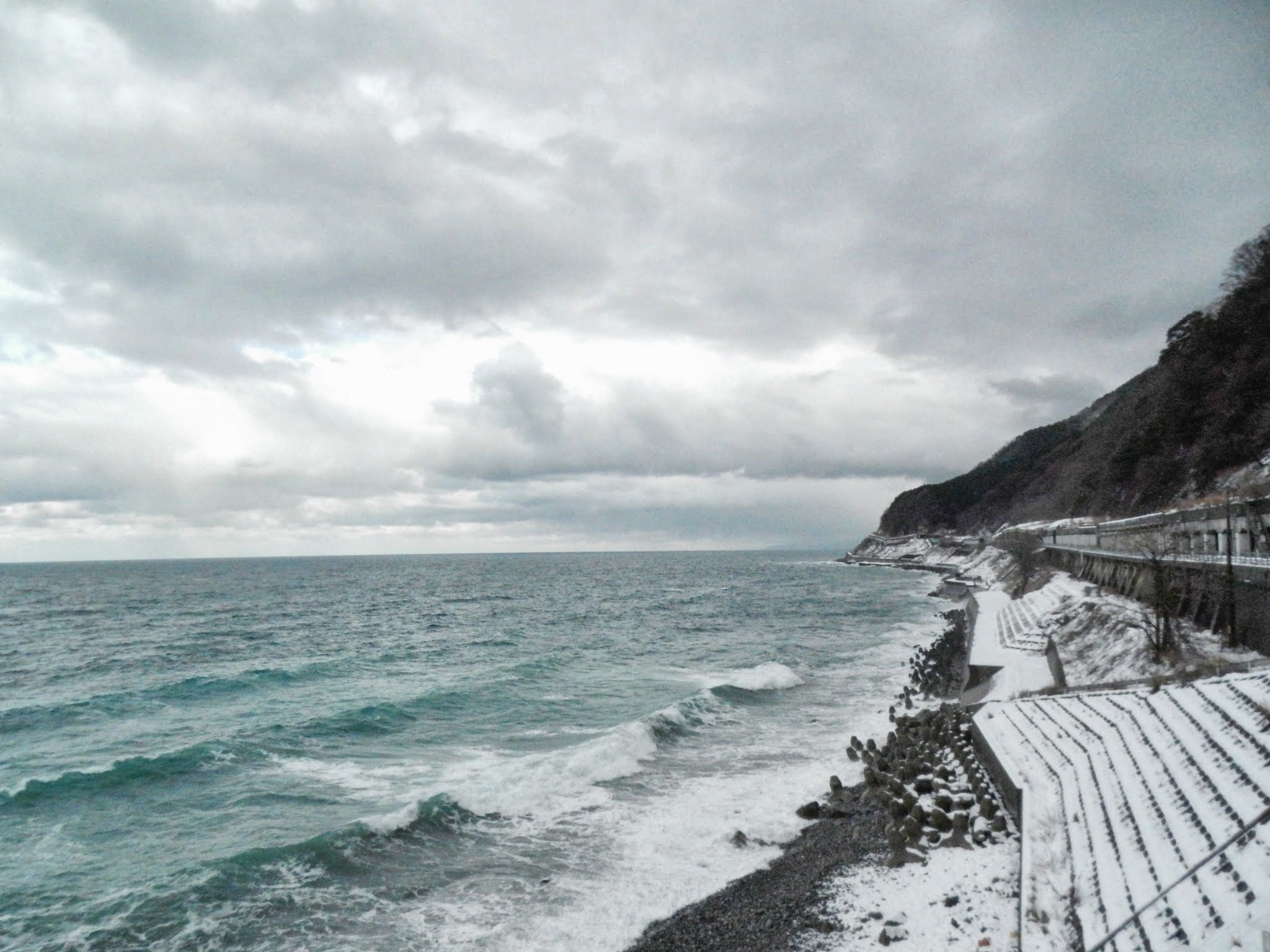 Ichiburi, Itoigawa, Niigata Prefecture 949-0111, Japan